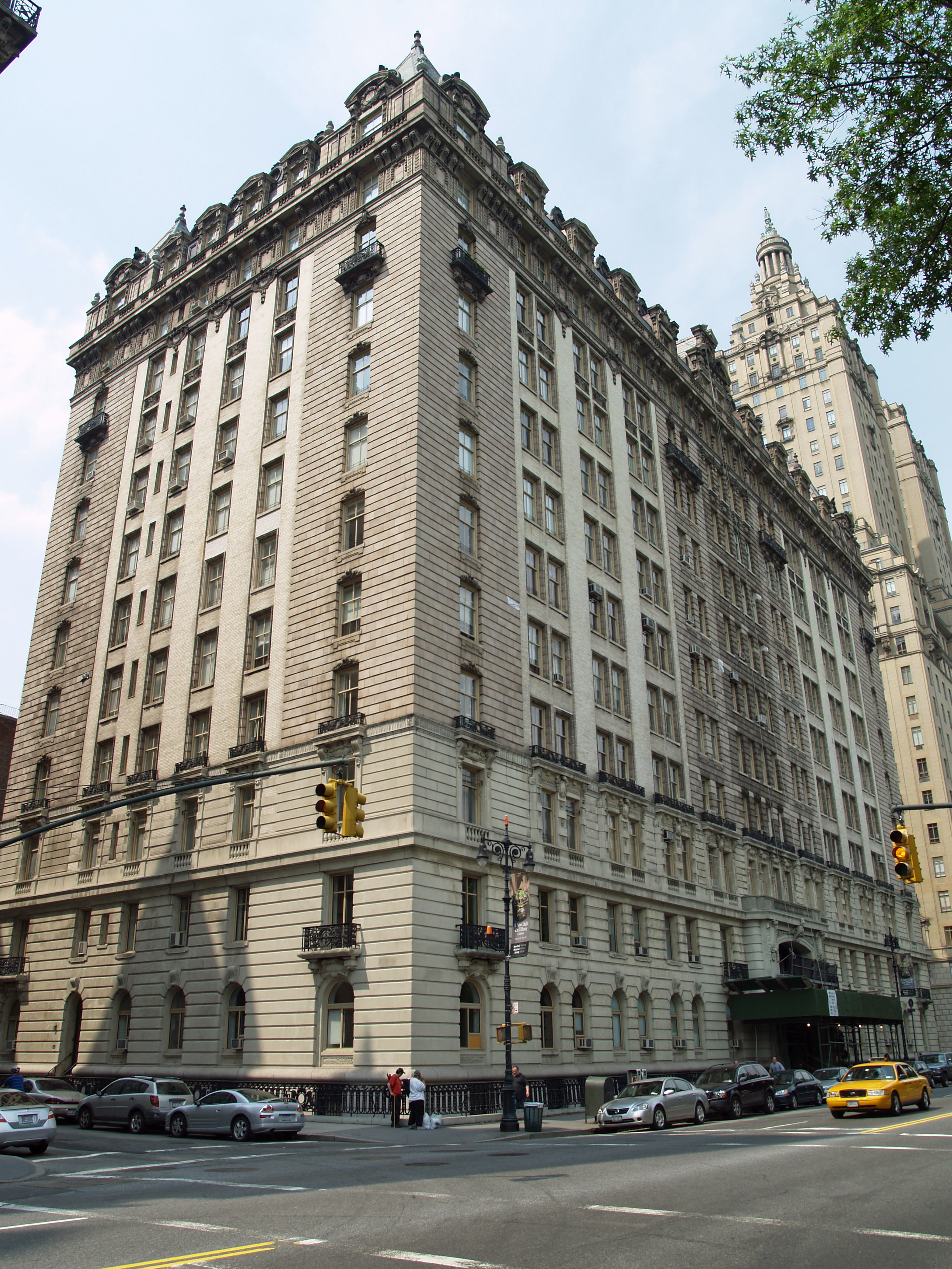 135 Central Park West (The Langham)